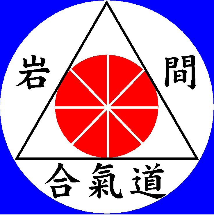 Iwama Shinshin Aiki Shurenkai